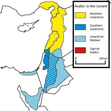 Map representing the distribution of the varieties of Arabic in the area of the Levant, classified into Northern, Southern, Bedawi and Cypriot. Sources: Turkey: Ethnologue, Map Syria: Ethnologue, Map Lebanon: Glottolog, Ethnologue Jordan: Ethnologue, Map Palestine: Glottolog, Ethnologue Egypt: Ethnologue, Map Cyprus: Ethnologue